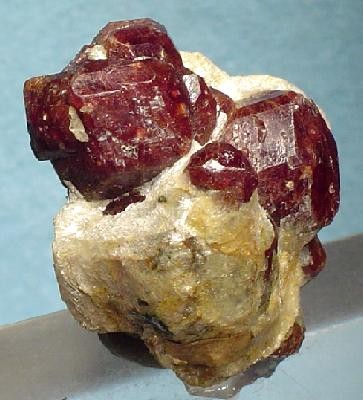 Almandine Locality: Simplon Railway tunnel (north section), Simplon pass area, Brig, Wallis (Valais), Switzerland (Locality at ) Size: 3.3 x 2.7 x 1.8 cm. An aesthetic and historic toenail specimen of sharp, gemmy and lustrous, dark cherry-red almandine garnet crystals jauntily set in muscovite schist matrix from the famous Simplon Tunnel between Switzerland and Italy. When completed in 1905, this 19.8 km railway tunnel, was the longest railway tunnel in the world. A neat piece of history, with an OLD German label. Ex. George Elling Collection.